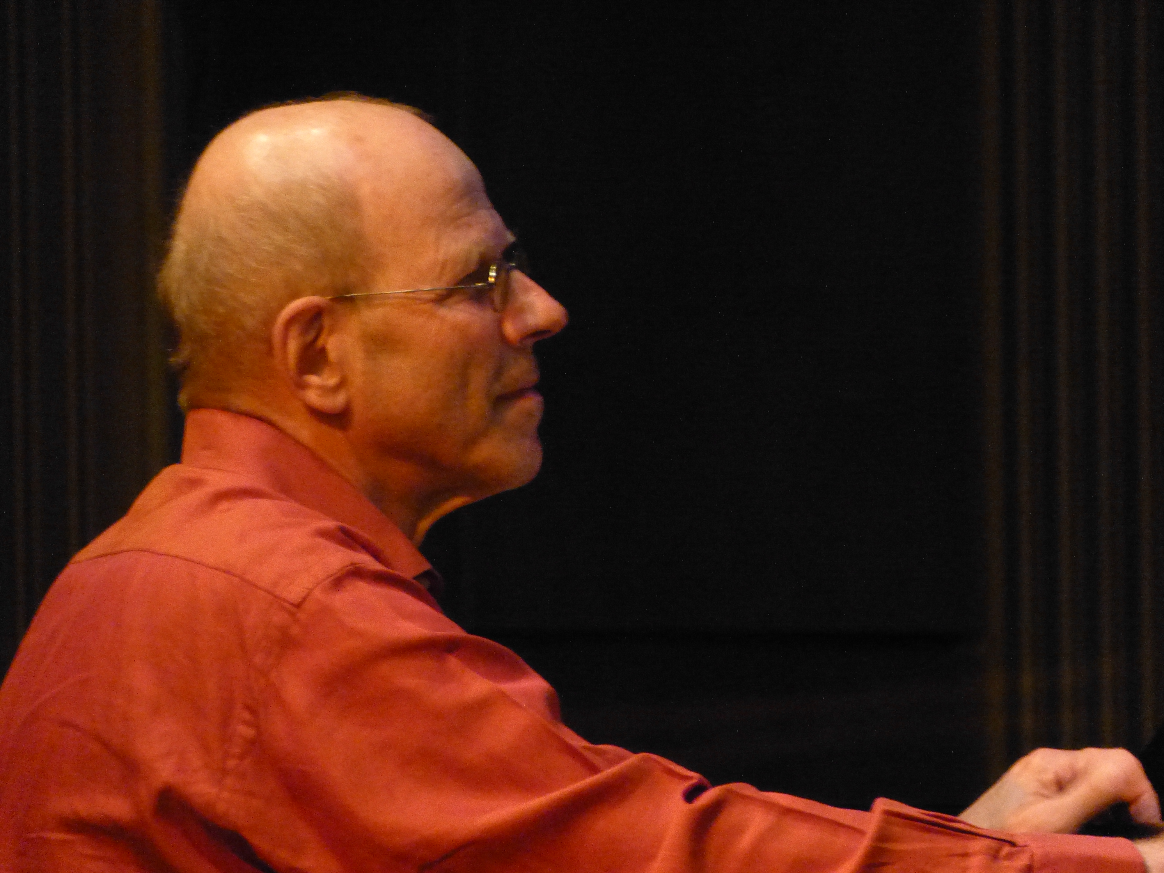 Guus Janssen in concert with the David Kweksilber Big Band at WDR, Cologne, Germany, May 6th, 2017 in the course of the Acht Brücken festival